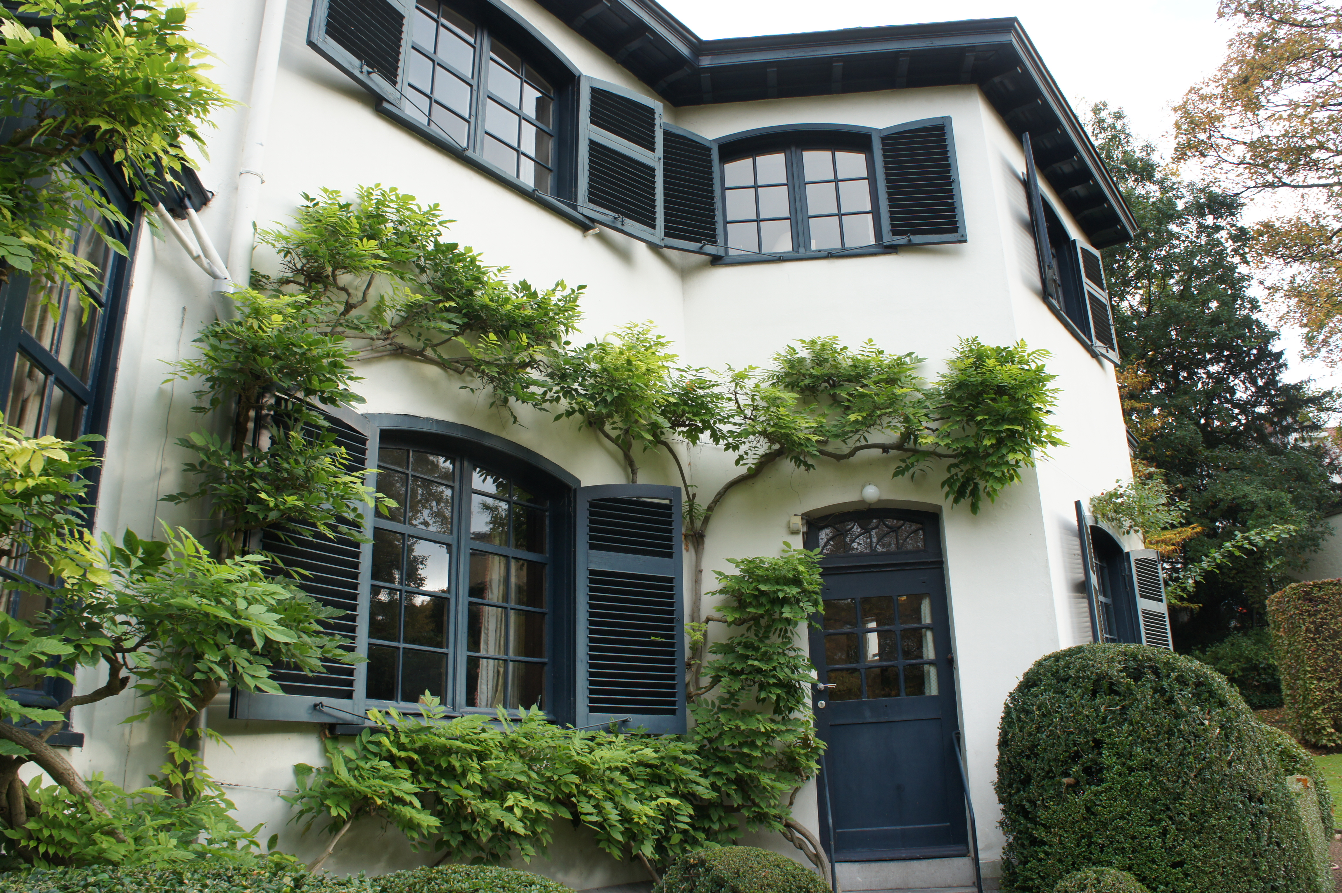 Villa Bloemenwerf Avenue Vanderay 102, 1180 Uccle By Henry Van de Velde